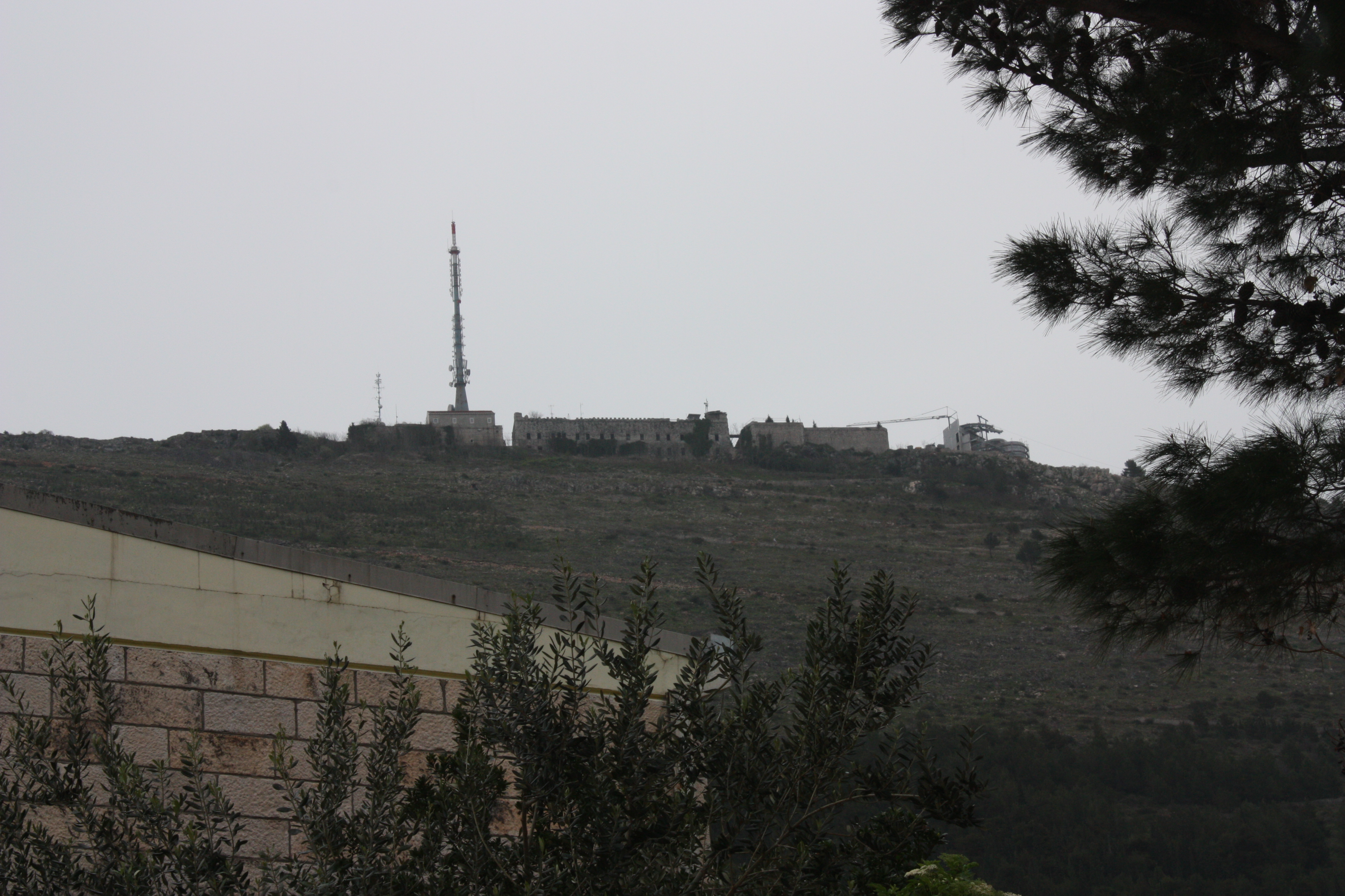 Fort Imperial,Dubrovnik